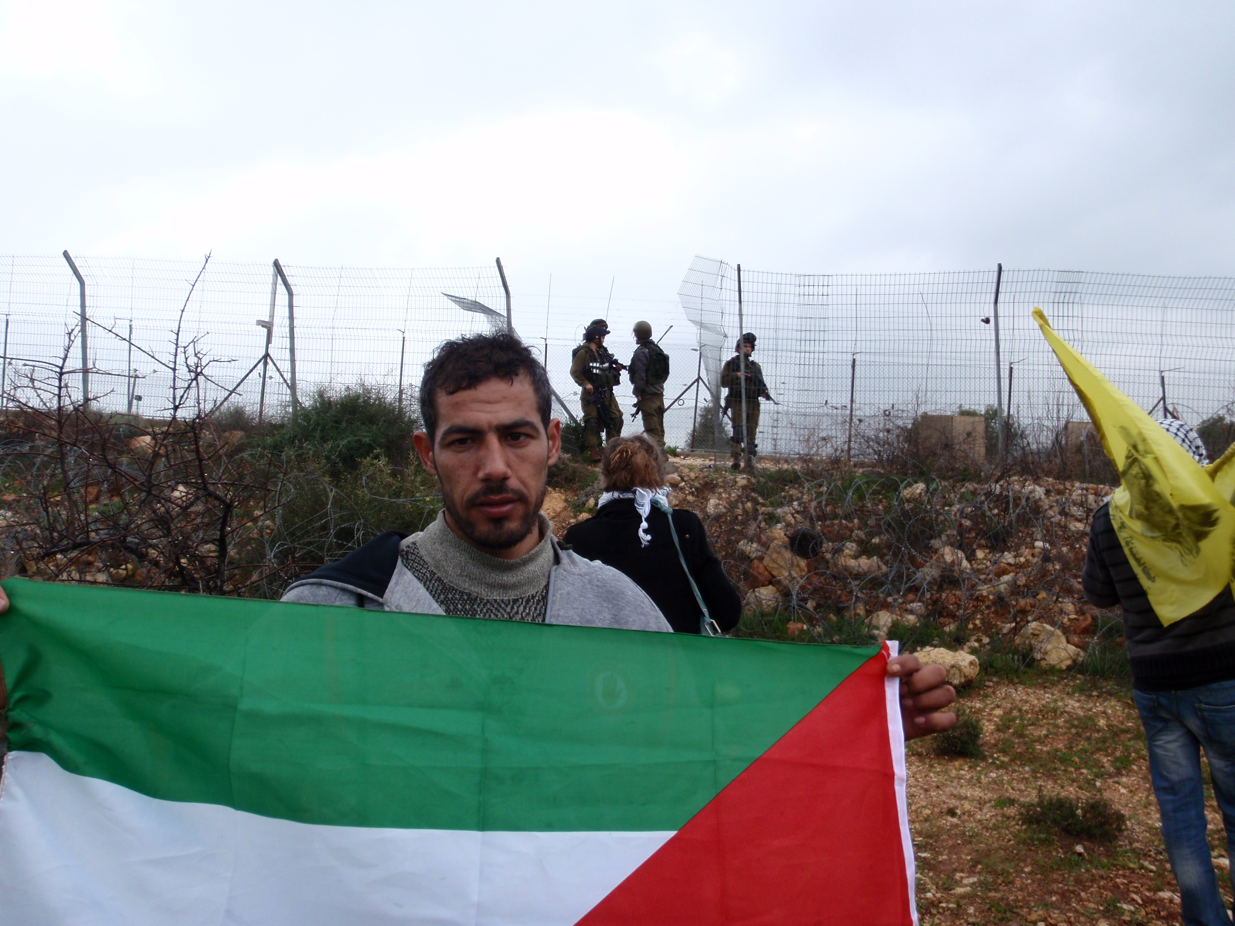 Demonstration in Bilin, March 11, 2011. This is Ashraf, brother of martyrs Jawaher Abu Rahmah and Bassem Abu Rahmah, who was himself shot by a Israeli soldier, while he was tied up and blindfolded (video is on youtube)